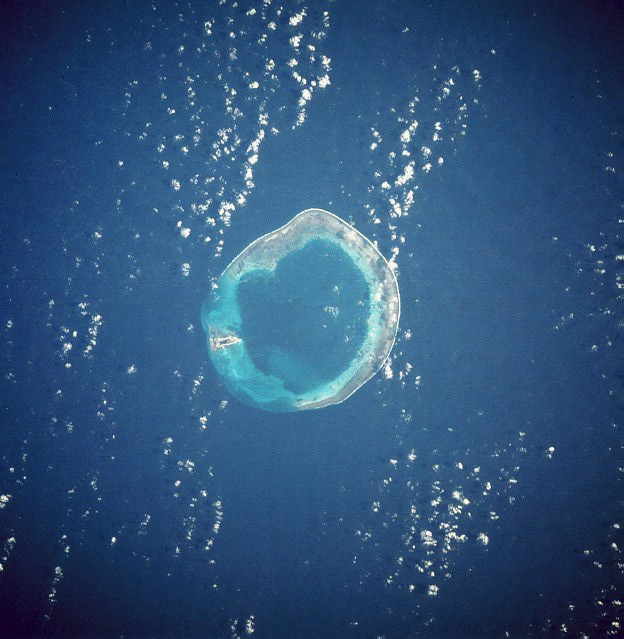 Pratas Island seen from space on January 13, 1986, taken by crew of STS-61-C on Space Shuttle Columbia from orbit. 中文（台灣）: 1986年1月13日，在哥倫比亞號太空梭上執行STS-61-C任務的太空人拍攝的東沙群島 Bân-lâm-gú: 1986-nî 1-gue̍h ê Lâm-tiong-kok-hái Tang-sua-kûn-tó